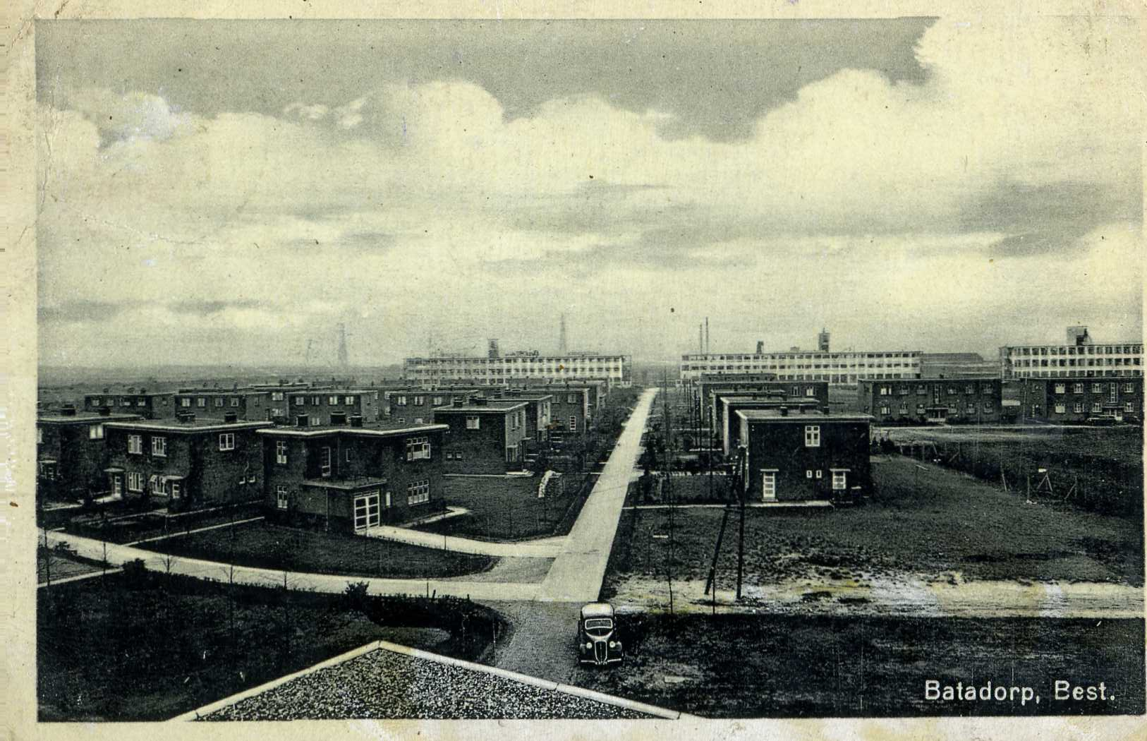 Bata factory estate and housing, Batadorp, Best Netherlands. 1939